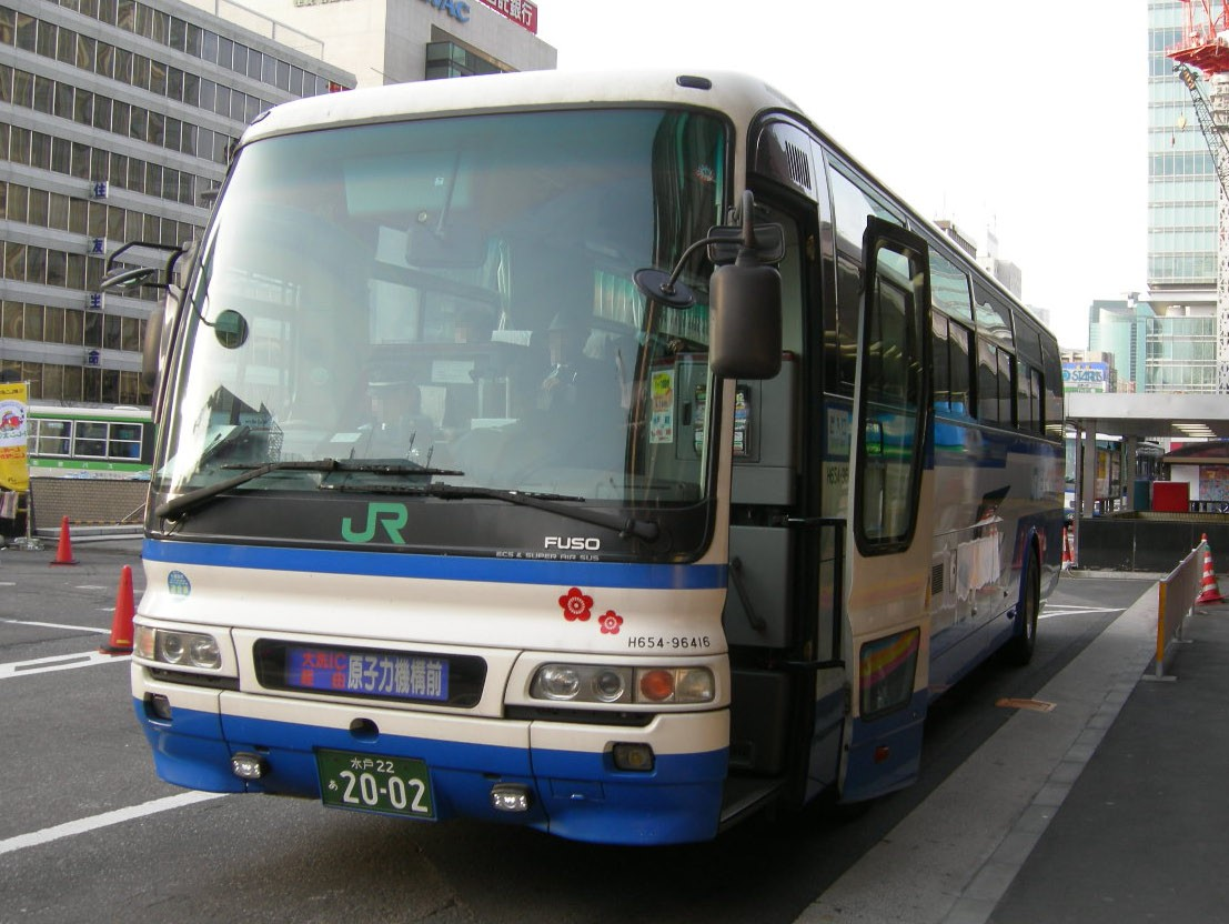 JR bus Kanto highwaybus "Katsuta-Tokai"